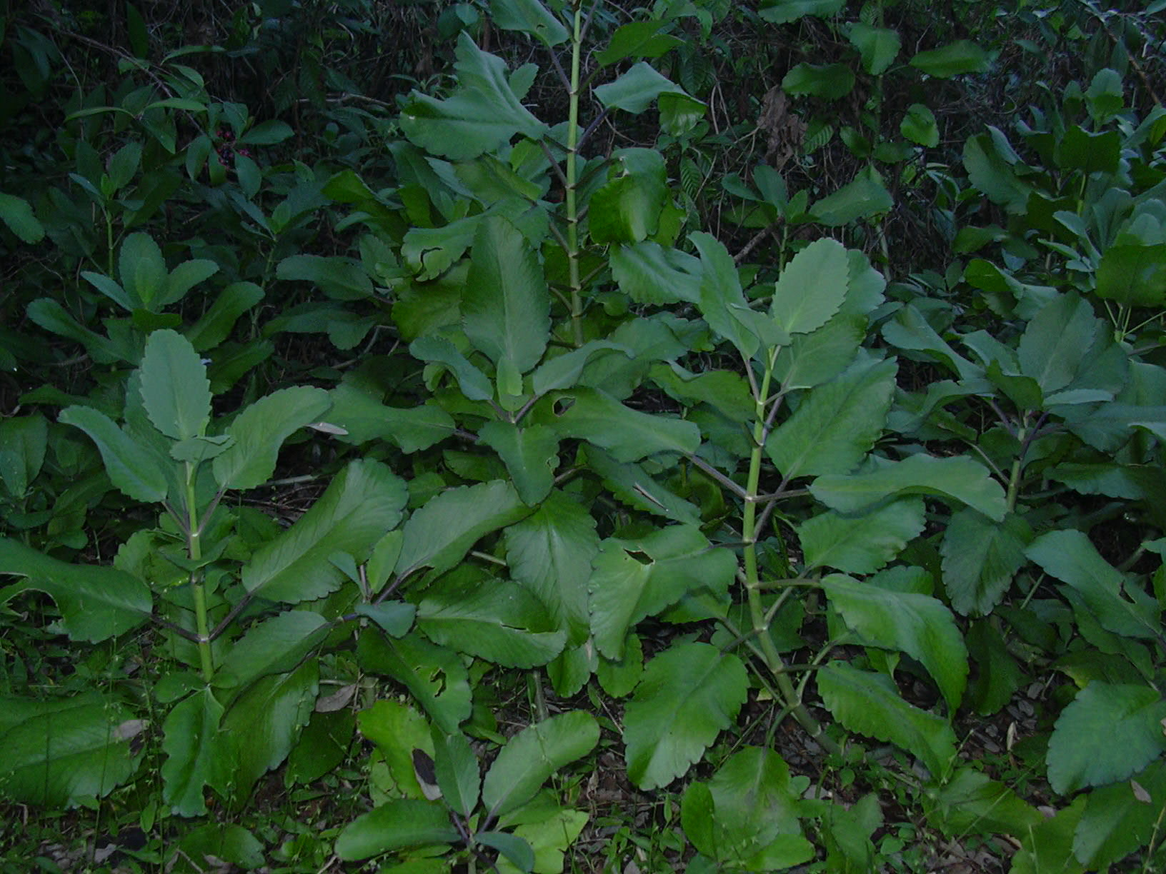 Kalanchoe pinnata (habit). Location: Florida, Tree Top Park